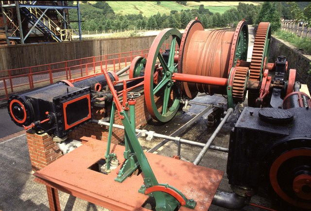 Cefn Coed Colliery. This is the re-erected cross compound drift haulage engine from Morlais Colliery, Llangennech. This site is now a mining museum.